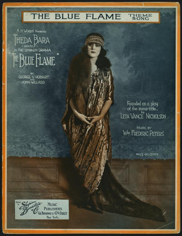 Cover of the sheet music for "The Blue Flame Theme Song" by William Frederic Peters and Ballard MacDonald. Shows actress Theda Bara, star of the play The Blue Flame.